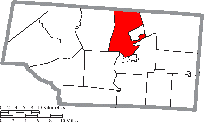 Map of the municipal and township boundaries of Pike County, Ohio, United States, as of the 2000 census, with the location of Pee Pee Township highlighted. Township borders are shown only in unincorporated areas in order to differentiate incorporated and unincorporated areas more clearly.